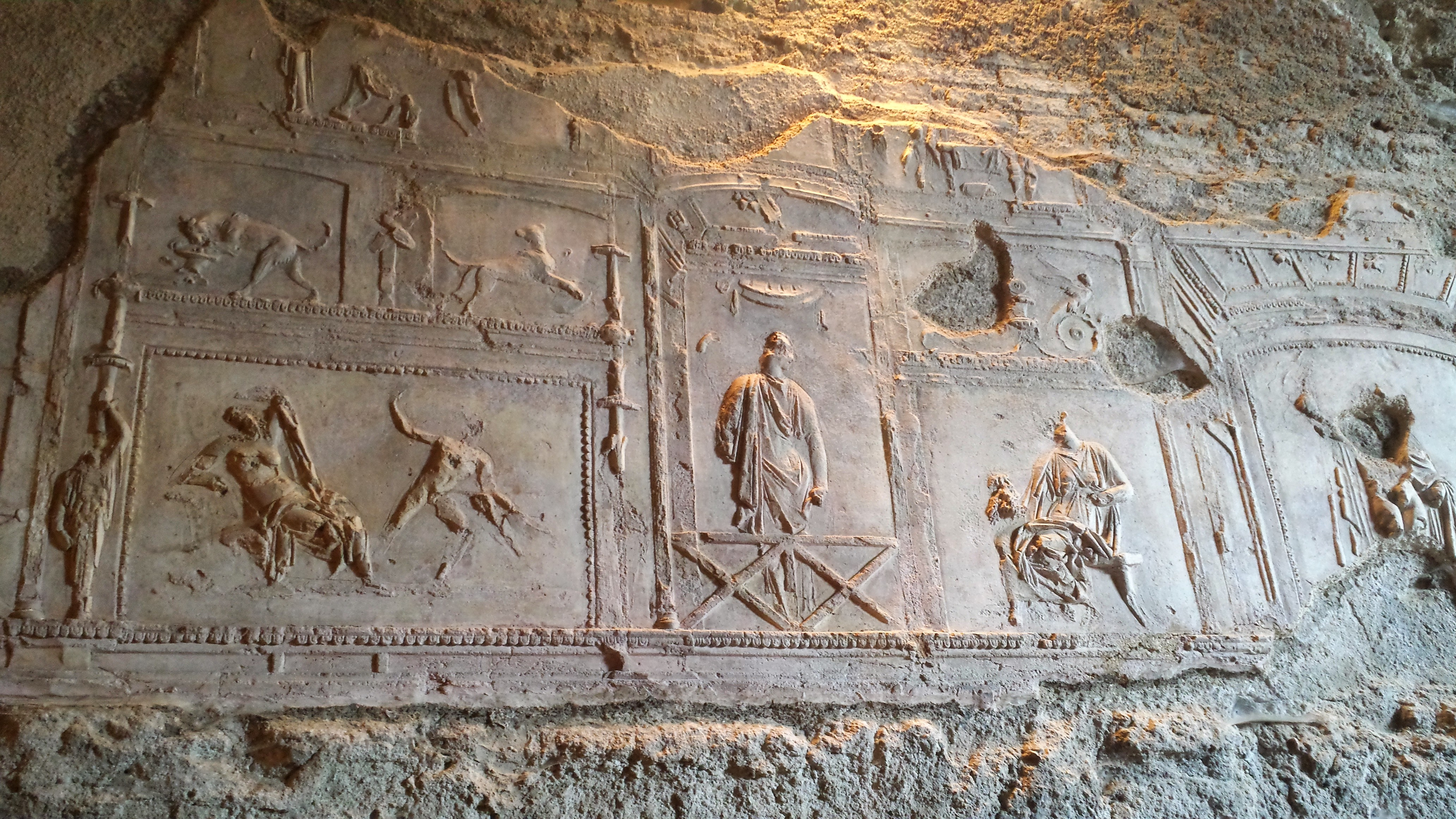 Wall decorations of the ancient Roman theatre (part of the villa of Emperor Domitian) within the Gardens of the Papal summer residence in Castel Gandolfo.